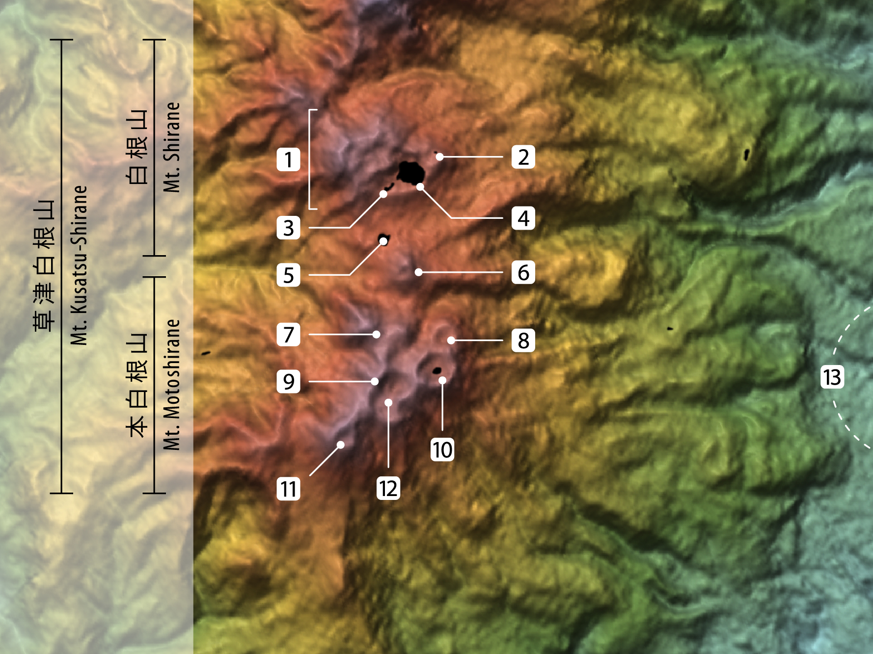 Massif of Kusatsu-Shirane Volcano in Gumna Prefecture, Honshu, Japan.